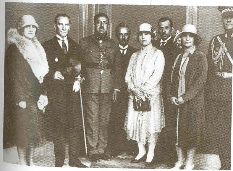 Ataturk with Amanullah Khan (King of Afghanistan from 1919 to 1929)